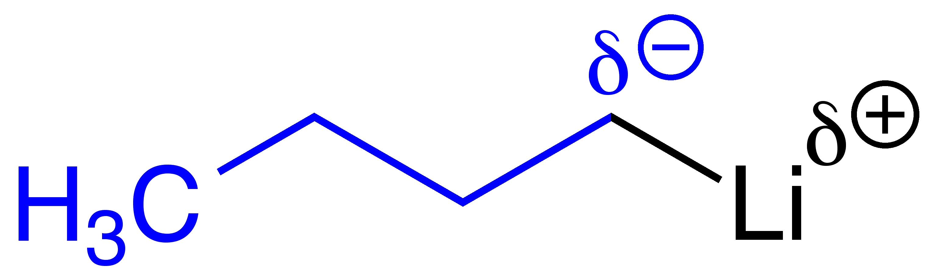 n-Butyl_Lithium